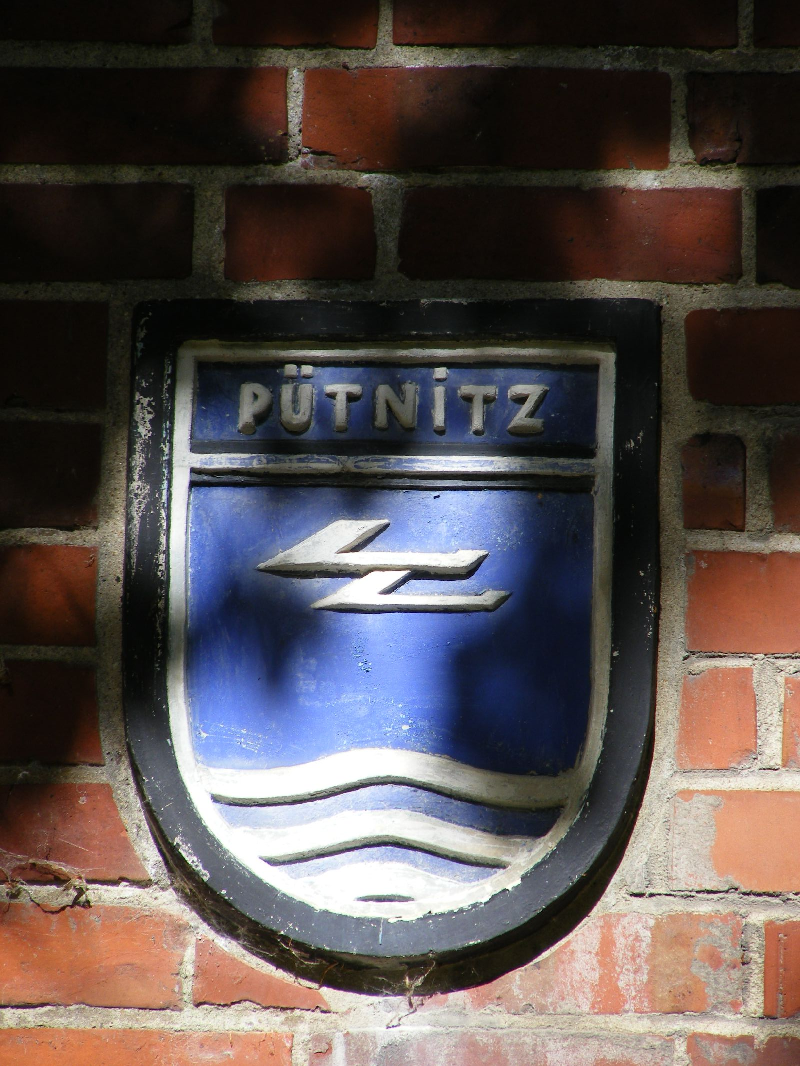 Crest on one of the derelict buildings on the site from the days of the Luftwaffe Fliegerhorst.